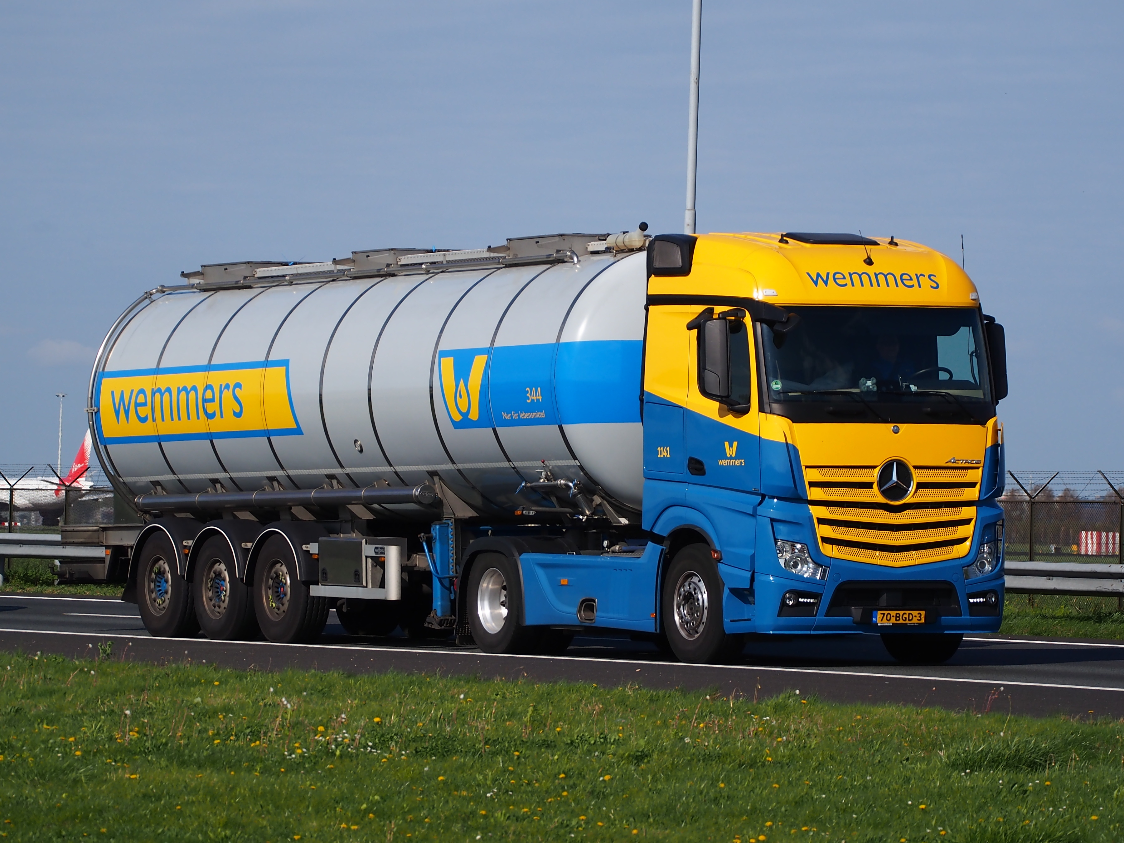 Photographed at the A5.